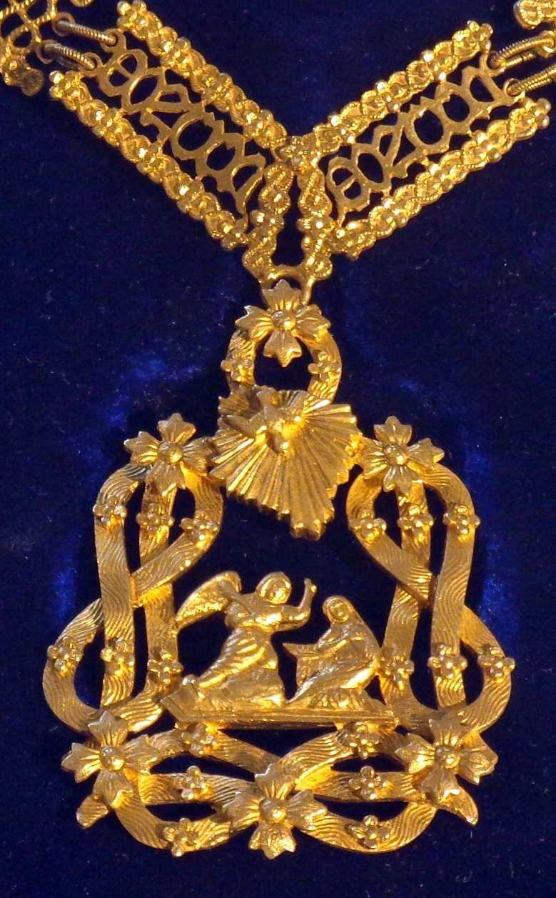 Order of the Most Holy Annunciation, badge, 1920-1940. Kingdom of Italy. The exhibition of the Tallinn Museum of Orders of Knighthood, Estonia.